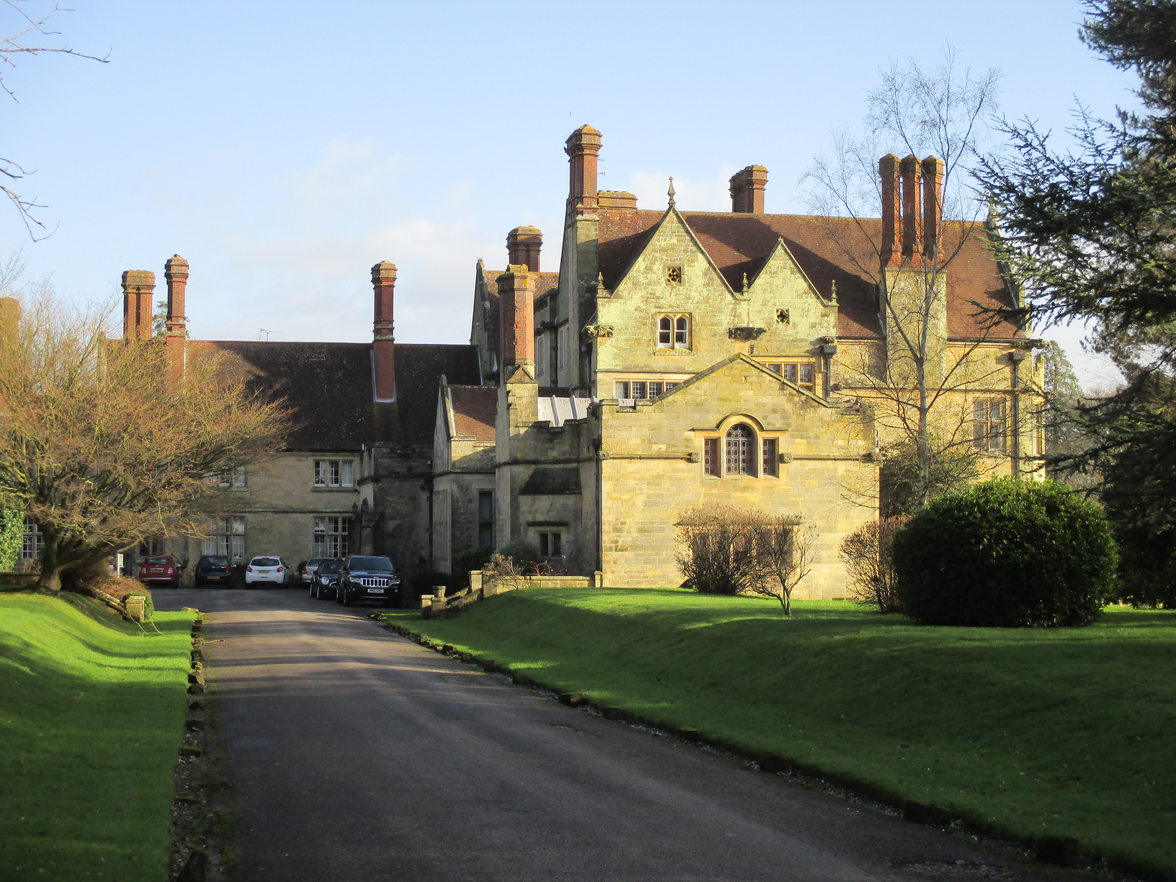 Balcombe Place, Balcombe, West Sussex, photographed from the south-west.